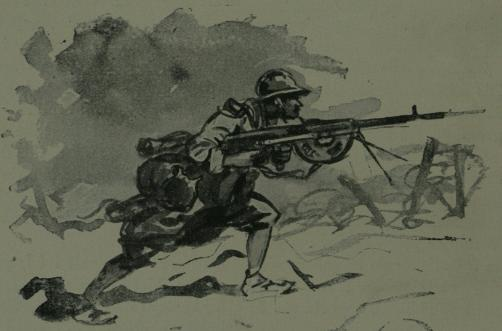 Illustration of World War I